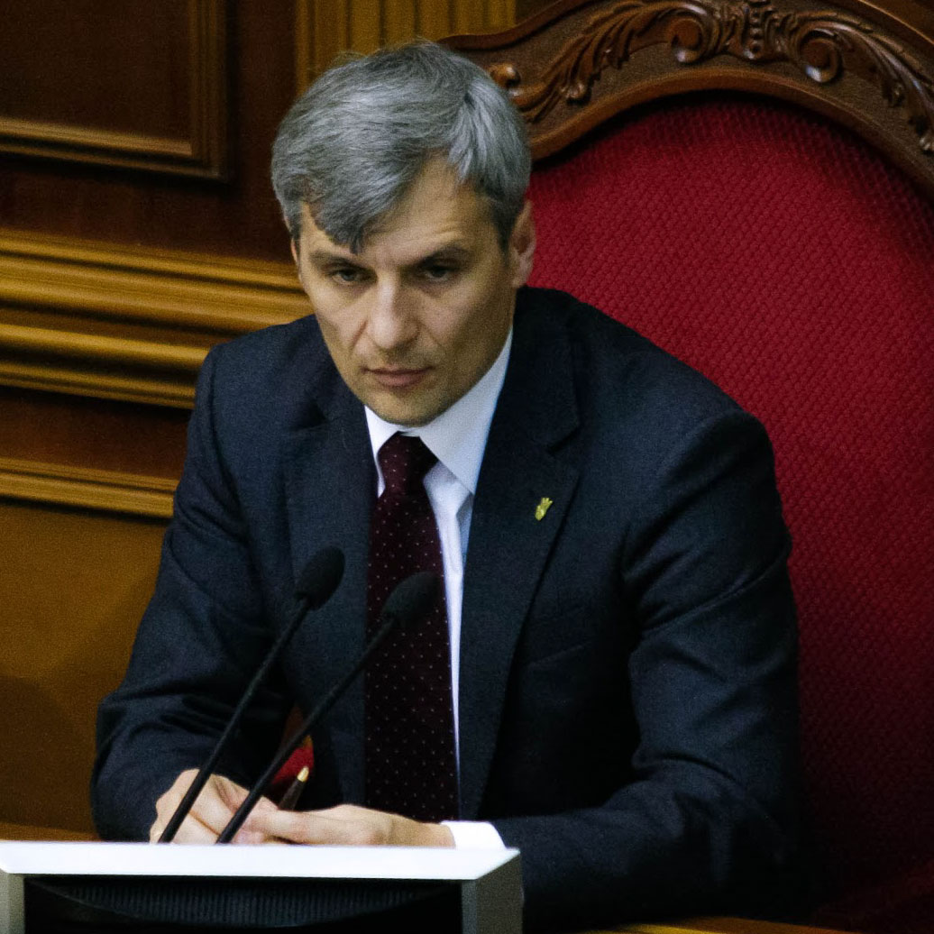 Ruslan Koshulynskyi, Ukrainian politician, member of the Ukrainian Verkhovna Rada